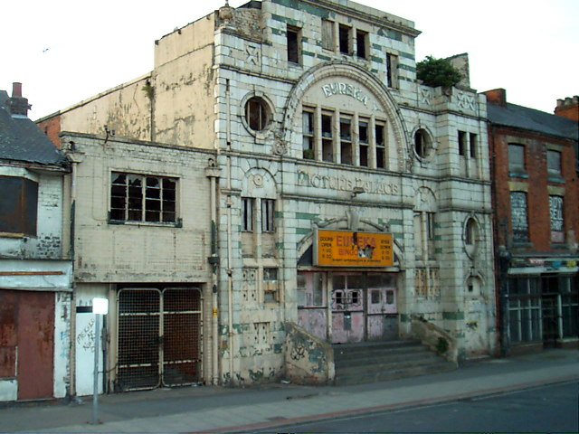 Eureka Picture Palace, Hessle Road, Hull, East Riding of Yorkshire, England.Built 1912, balcony & upper part of facade added 1921, converted to a bingo hall 1959, converted again to a concert venue 1984, closed 1989.